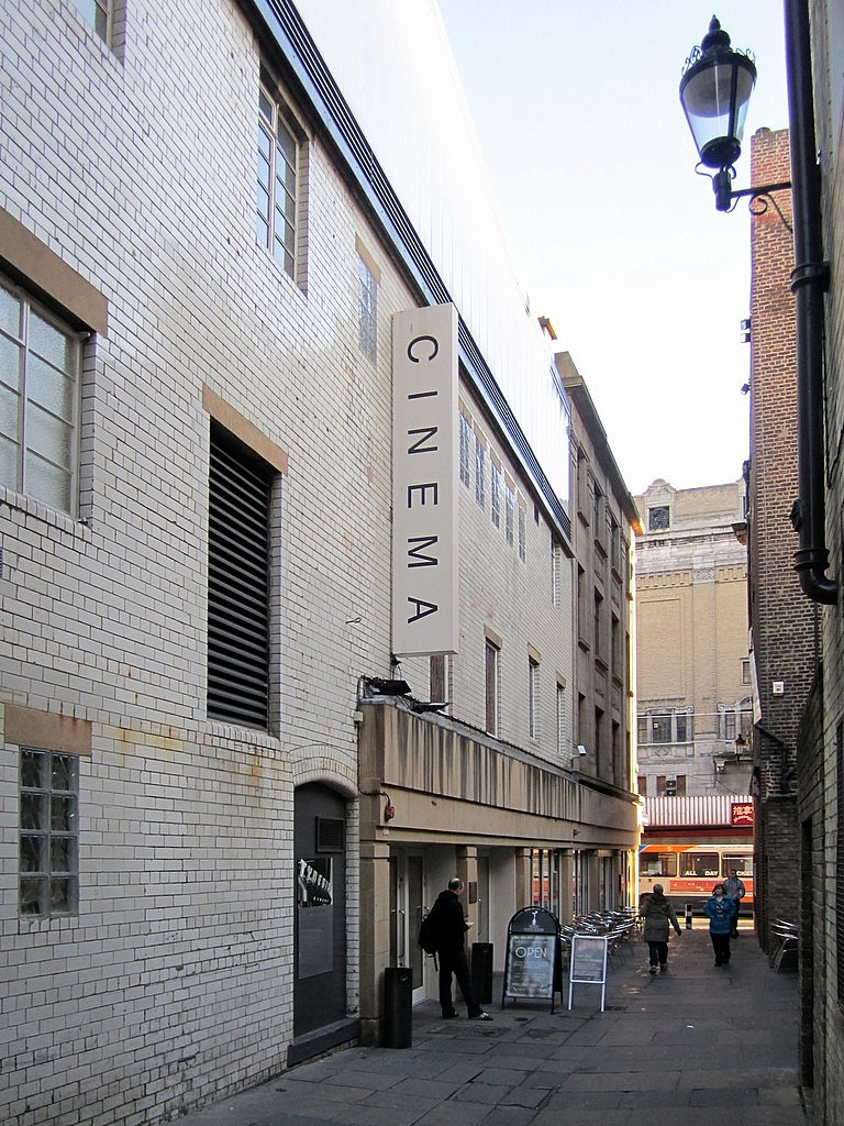 High Friar Lane at the Tyneside Cinema